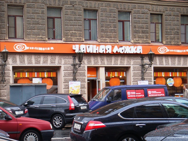 Chainaya Lozhka, Saint Petersburg